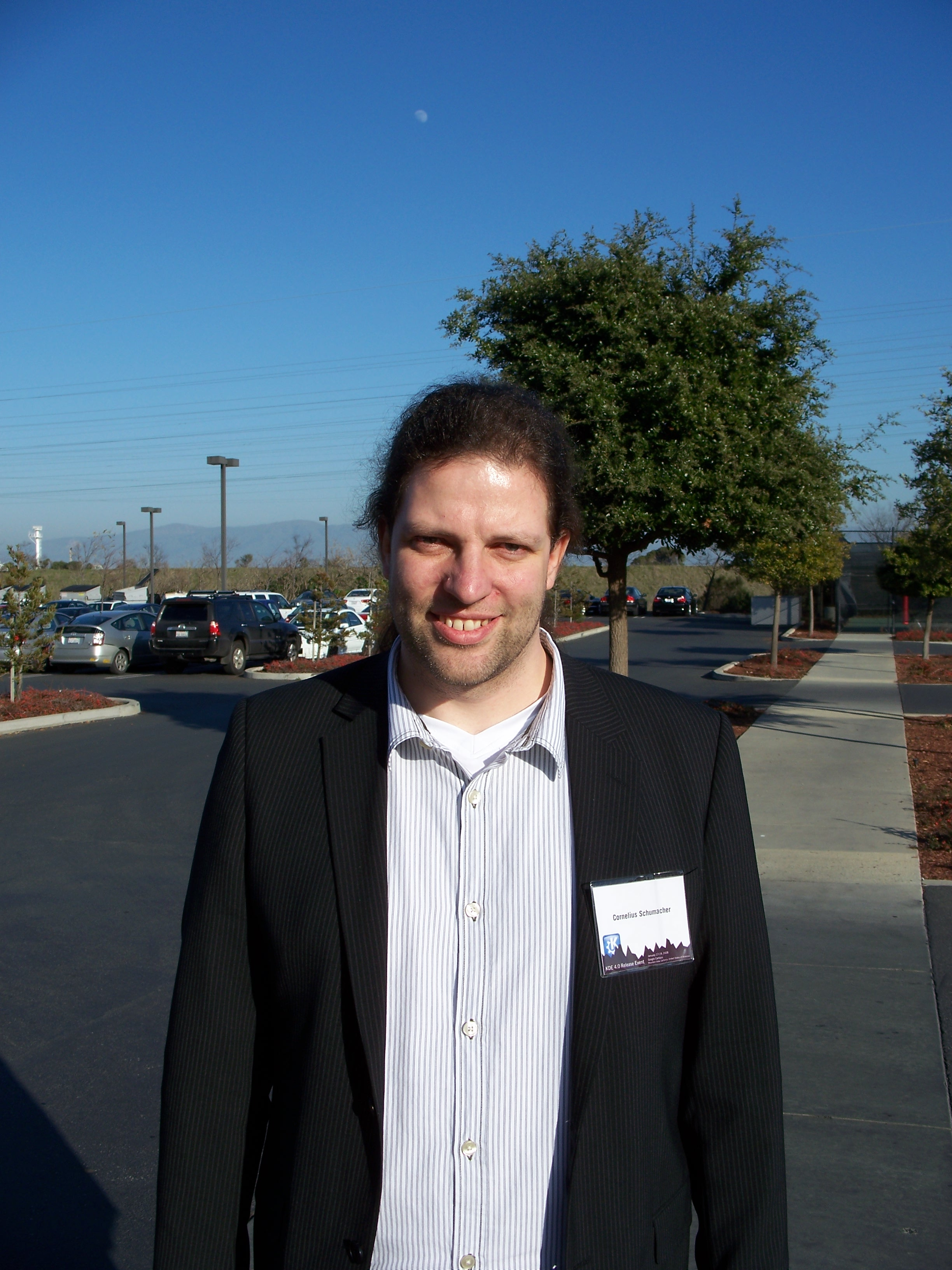 Cornelius Schumacher on KDE 4.0 release event. Google campus, Mountain View, California, USA